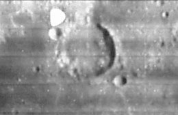 Lawrence lunar crater - image LOIV 066 H1